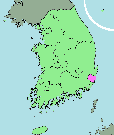 Area map of Ulsan